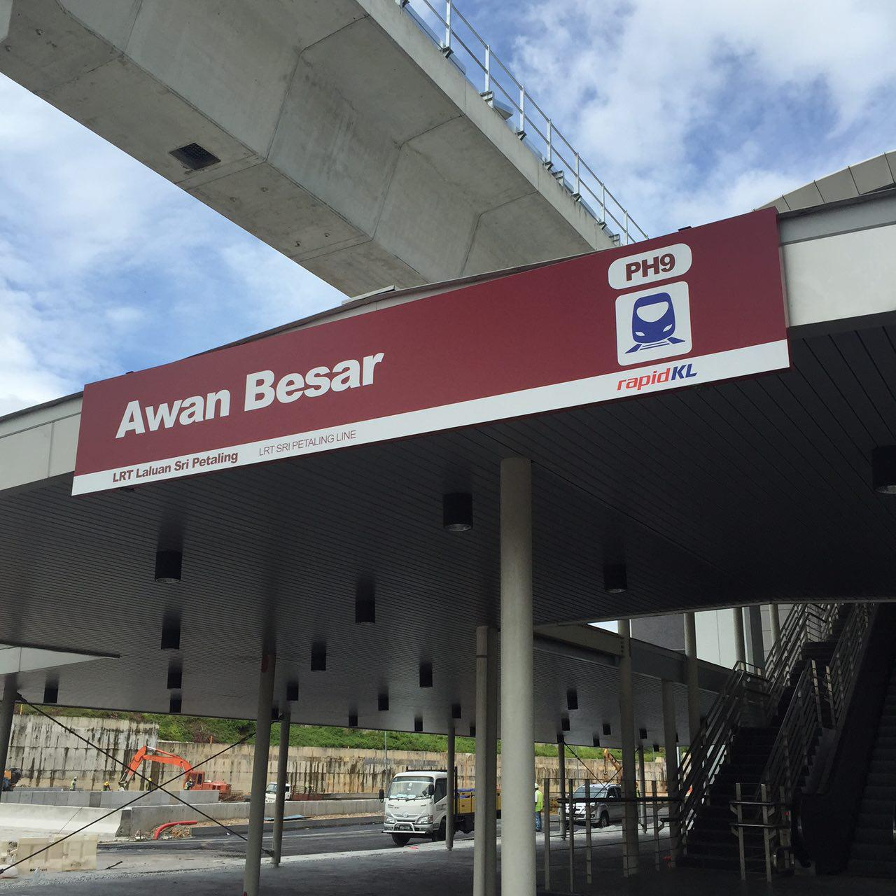 Main entrance signage for Awan Besar LRT station